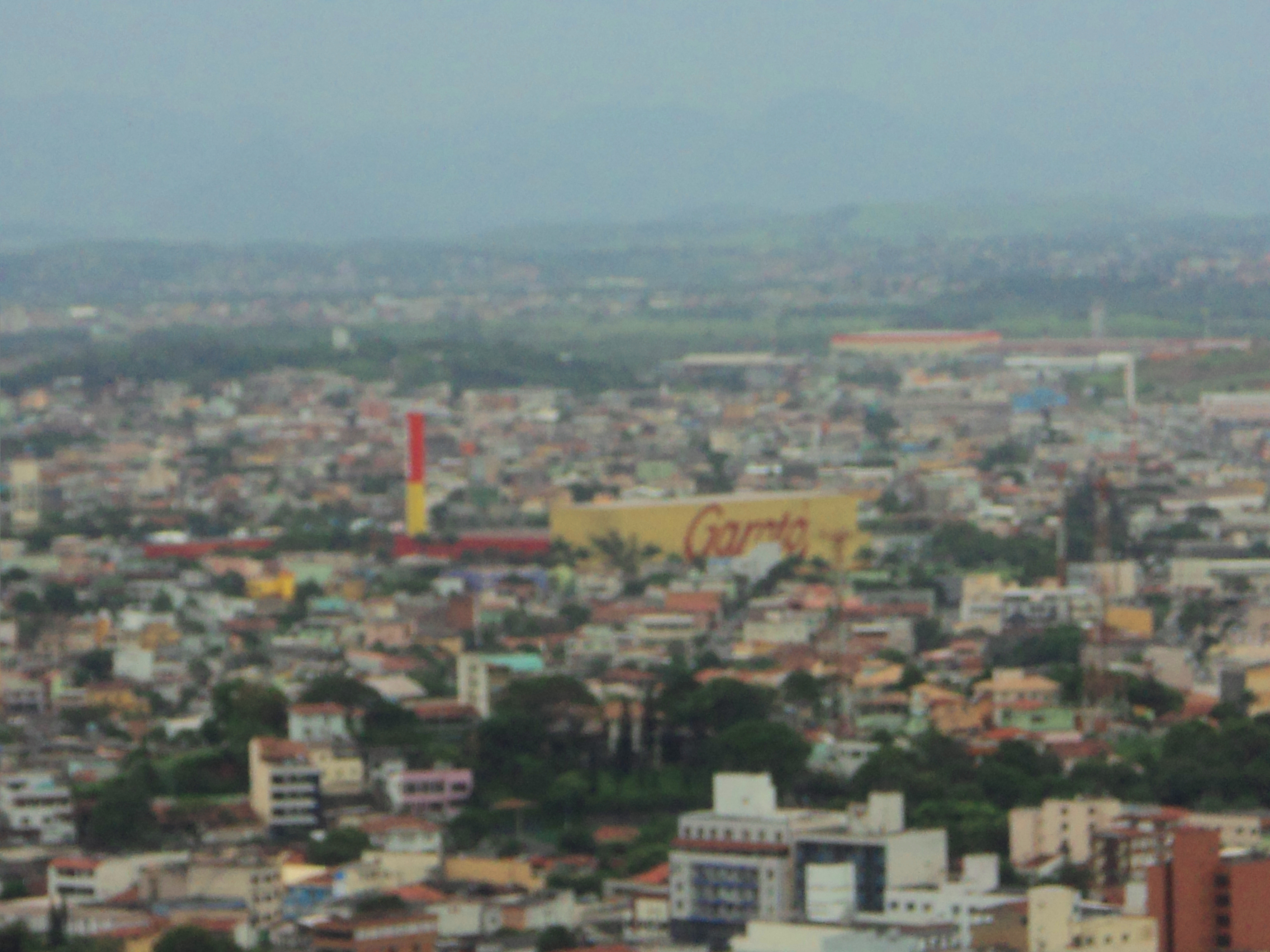 View of Vila Velha, Espírito Santo, Brazil, with emphasis on plant of the Chocolates Garoto.